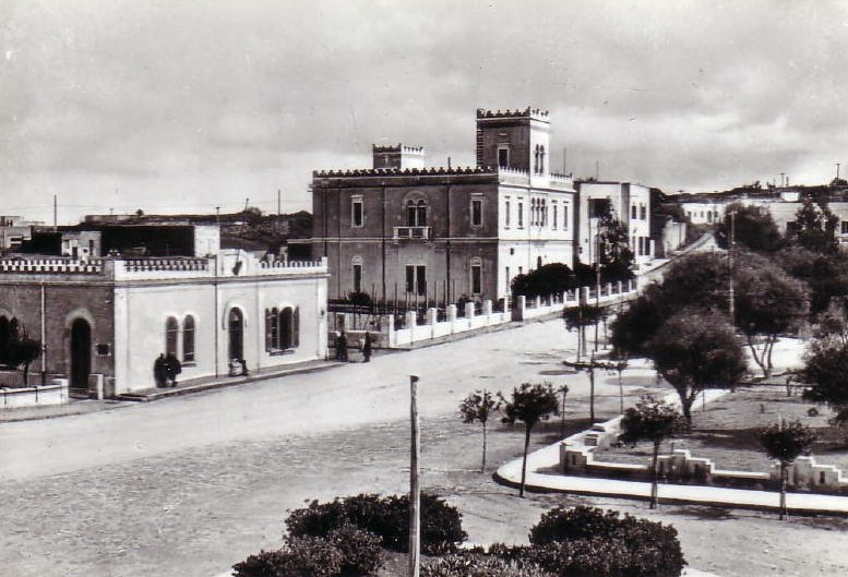 The Old Town quarter in Gharian, Libya